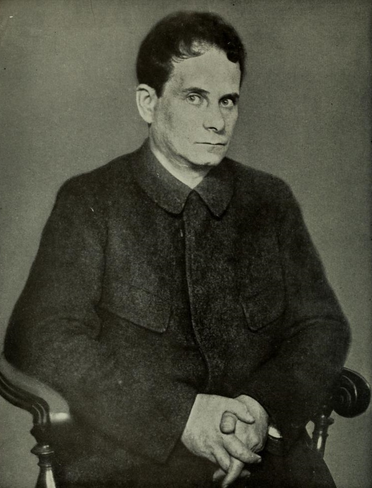 Portrait of Maximilian Harden